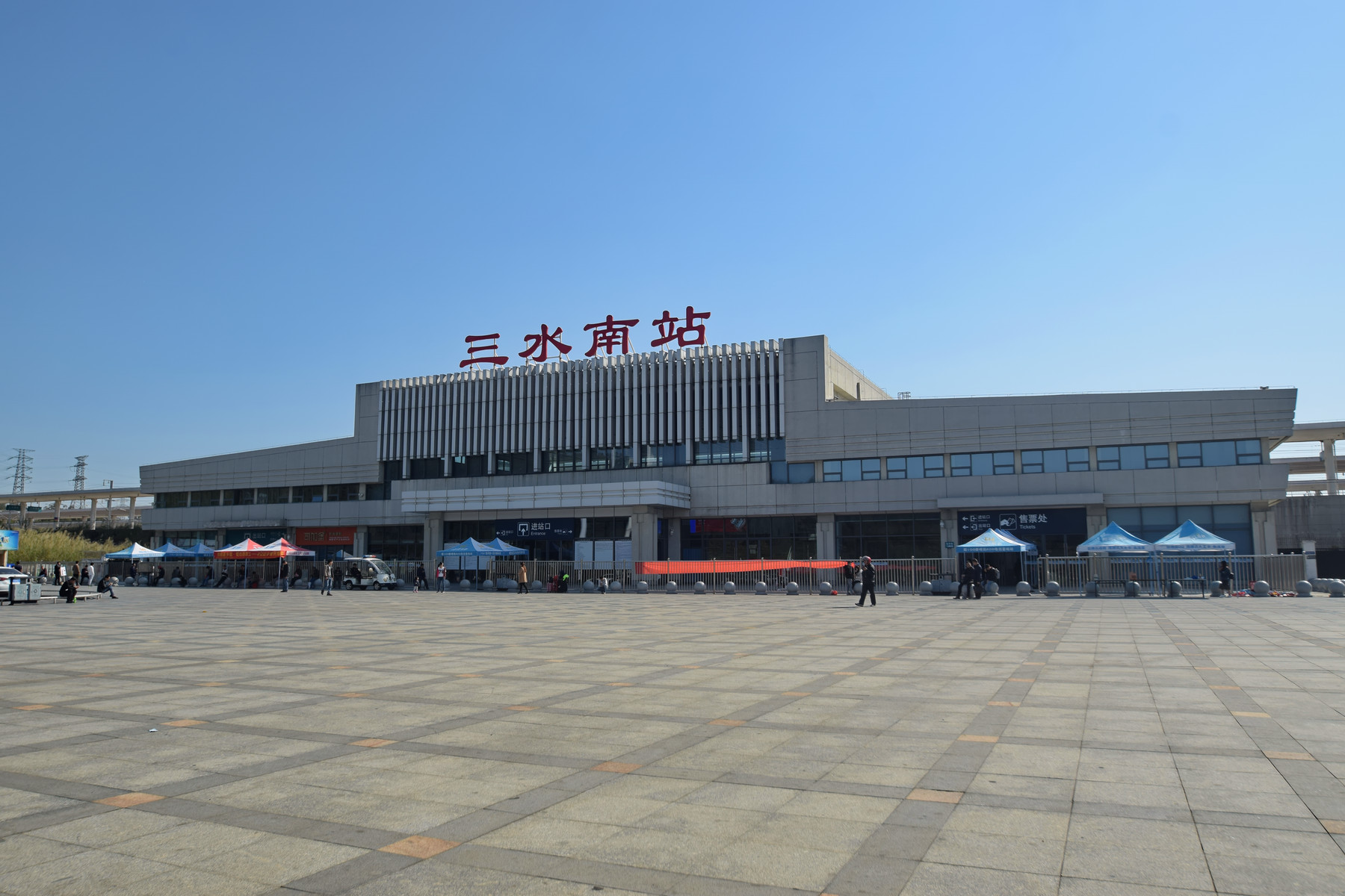 Station building of Sanshui Nan (South) Railway Station